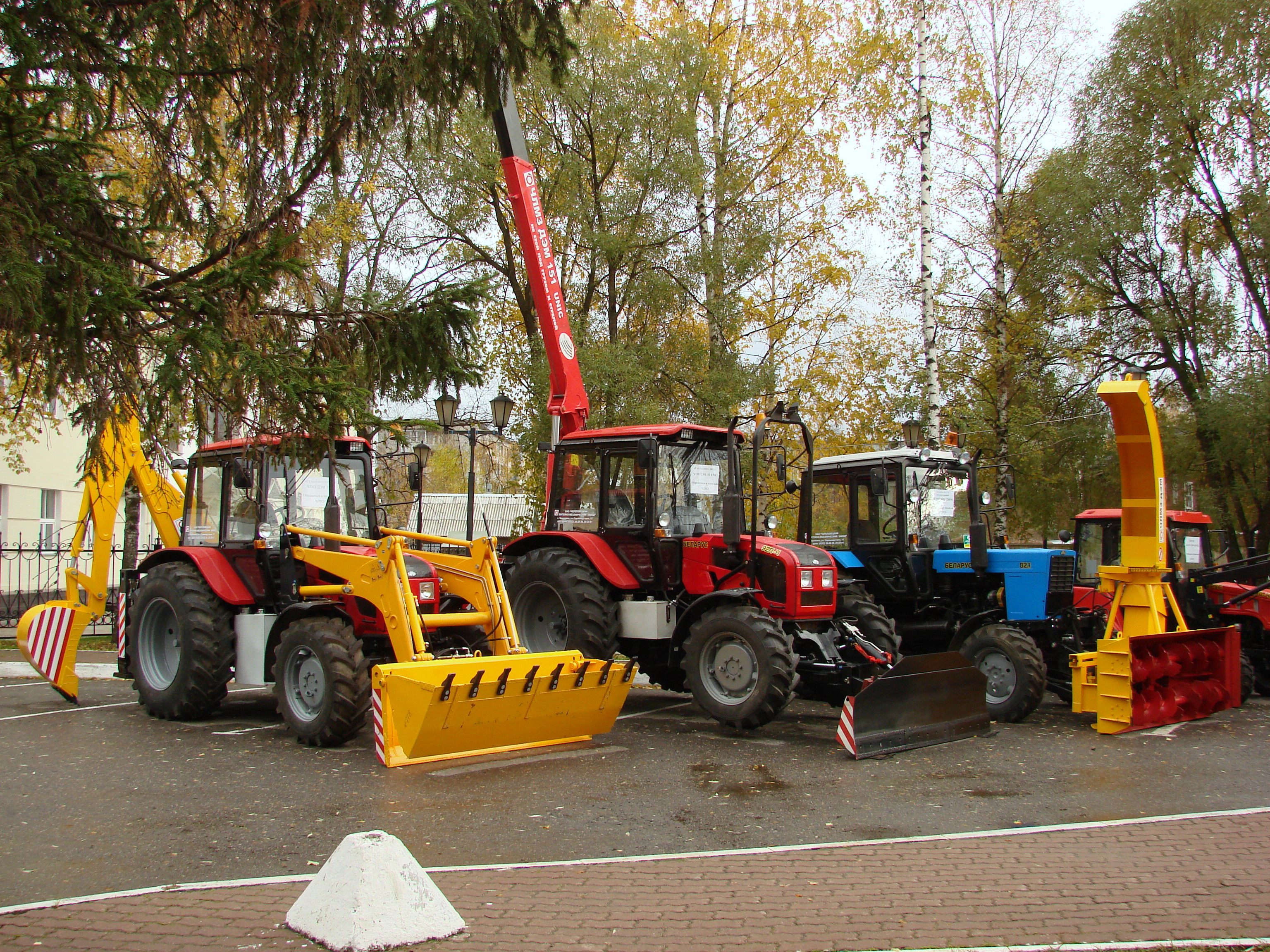 Russia, Vologda, Exhibition-Fair «My house», production of Cherepovets Casting-Mechanical Plant